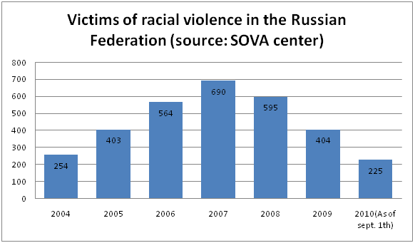 Statistic on racist violence in Russia